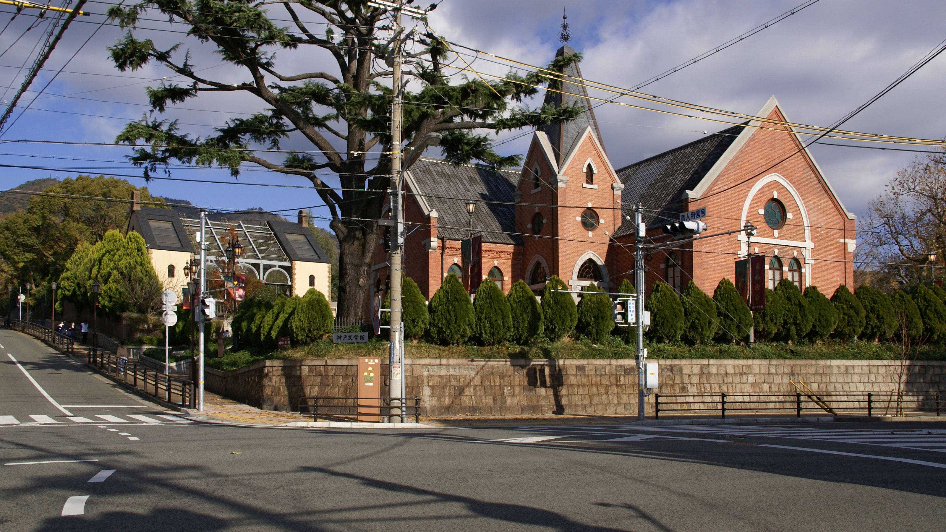 Kobe City Museum of Literature in Kobe, Hyogo, Japan